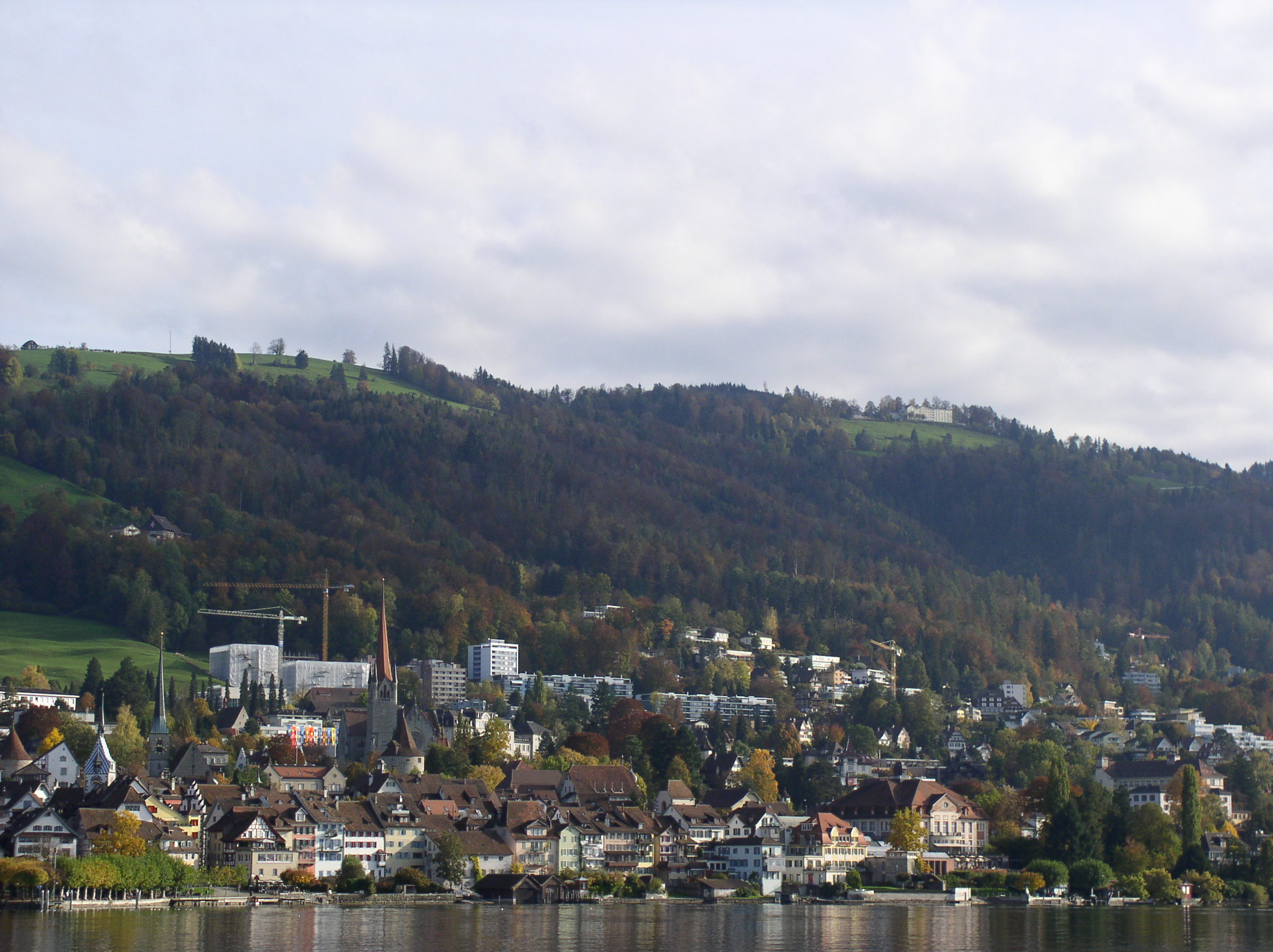 Description: Altstadtufer Zug Source: photo taken by me, October 2004 Photographer: Baikonur